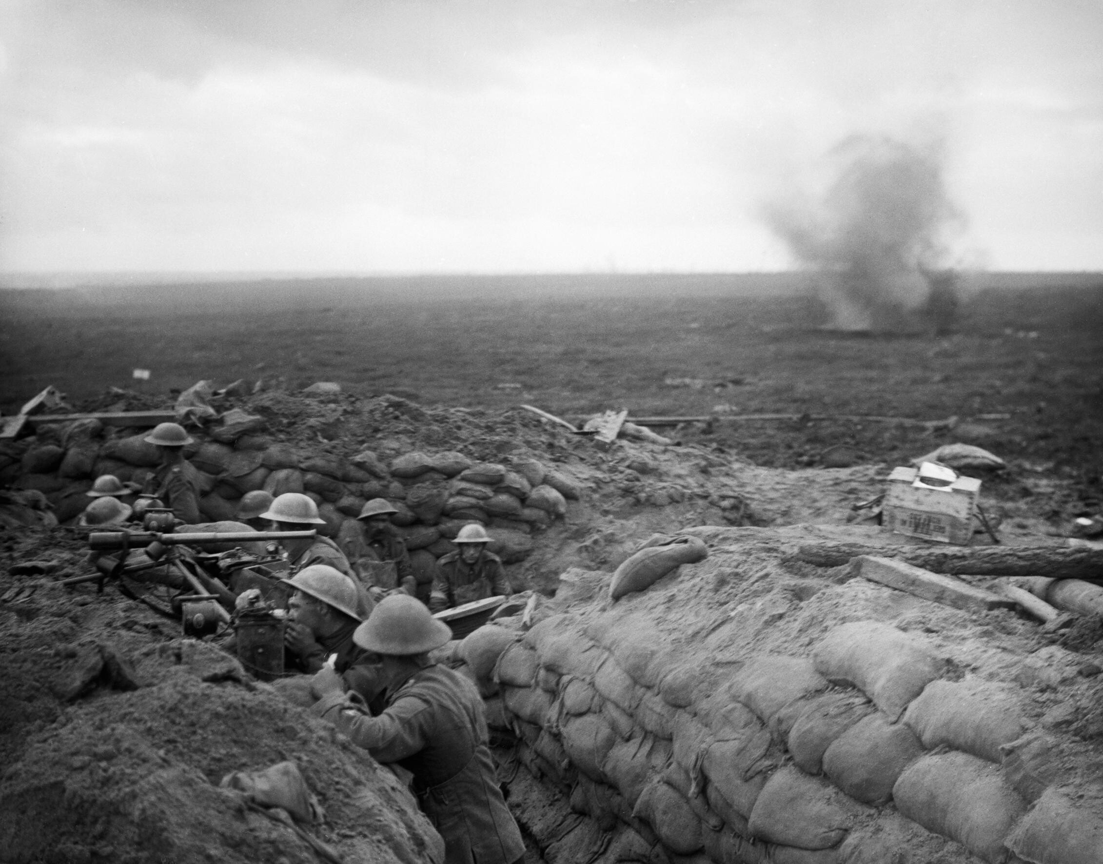 A signals section of the 13th Battalion, Durham Light Infantry, equipped with telescopes, field telephone and signalling lamps, await news of the progress of the unit's attack towards Veldhoek during the Battle of Menin Road.